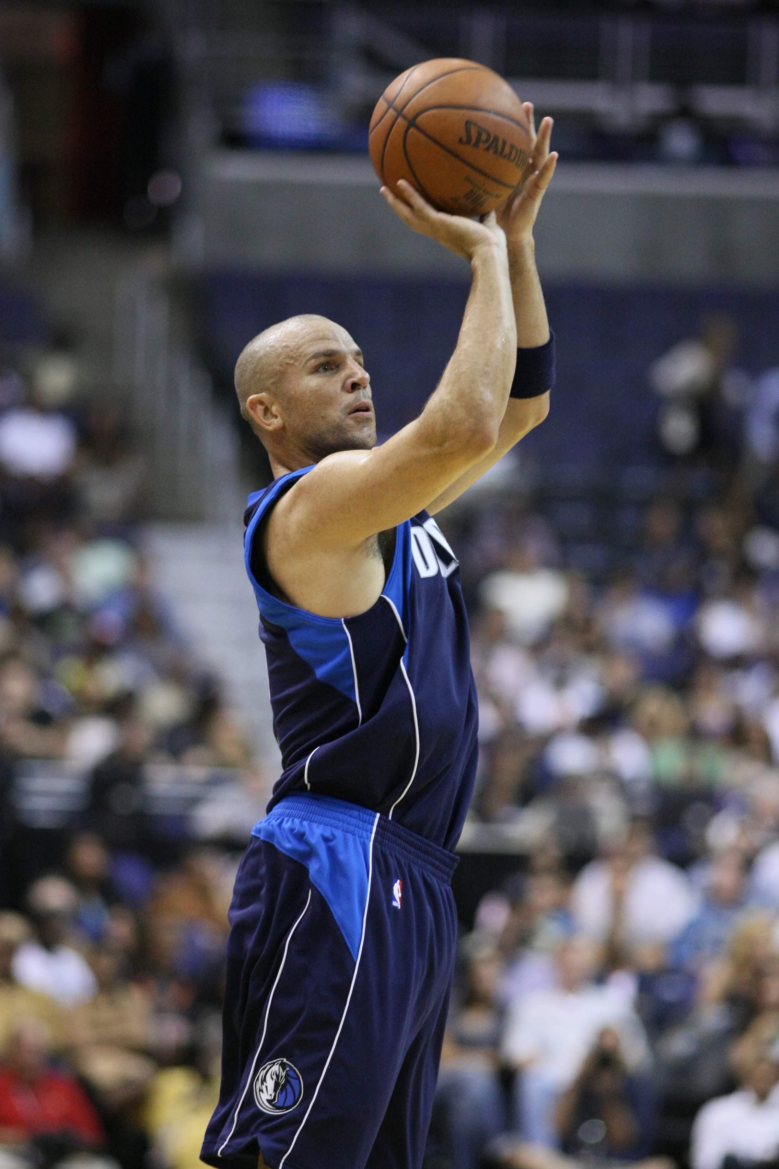 Jason Kidd playing with the Dallas Mavericks